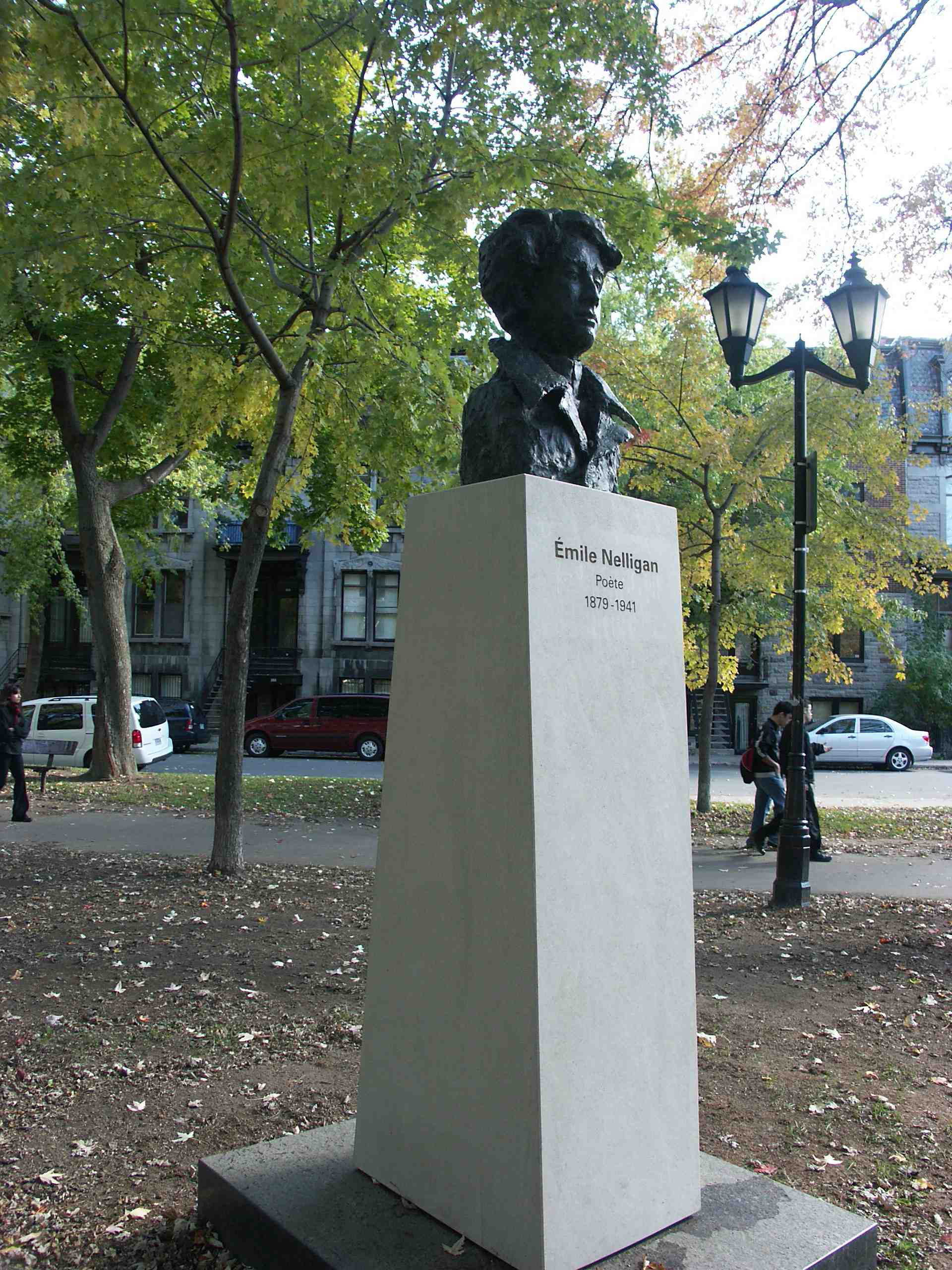 Bust of Émile Nelligan in park Square Saint-Louis, in Montreal.